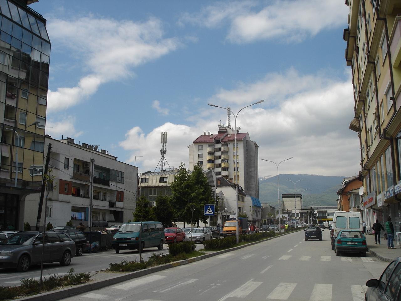 Boulevard "Goce Delchev" in dowtown, Gostivar, Macedonia